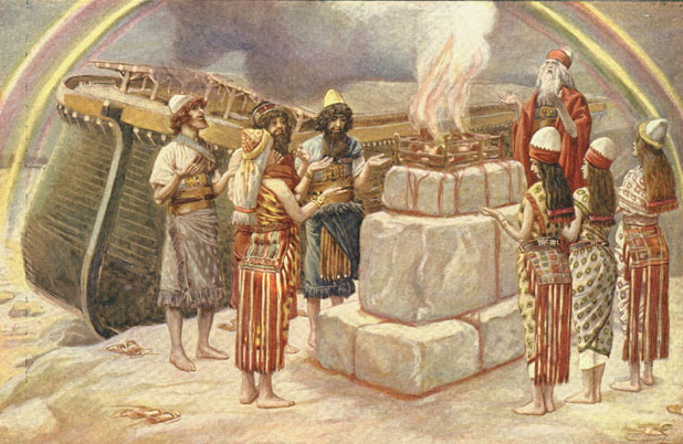 Noah's Sacrifice, c. 1896-1902, by James Jacques Joseph Tissot (French, 1836-1902), gouache on board, 7 3/8 x 11 3/8 in. (18.7 x 28.9 cm), at the Jewish Museum, New York